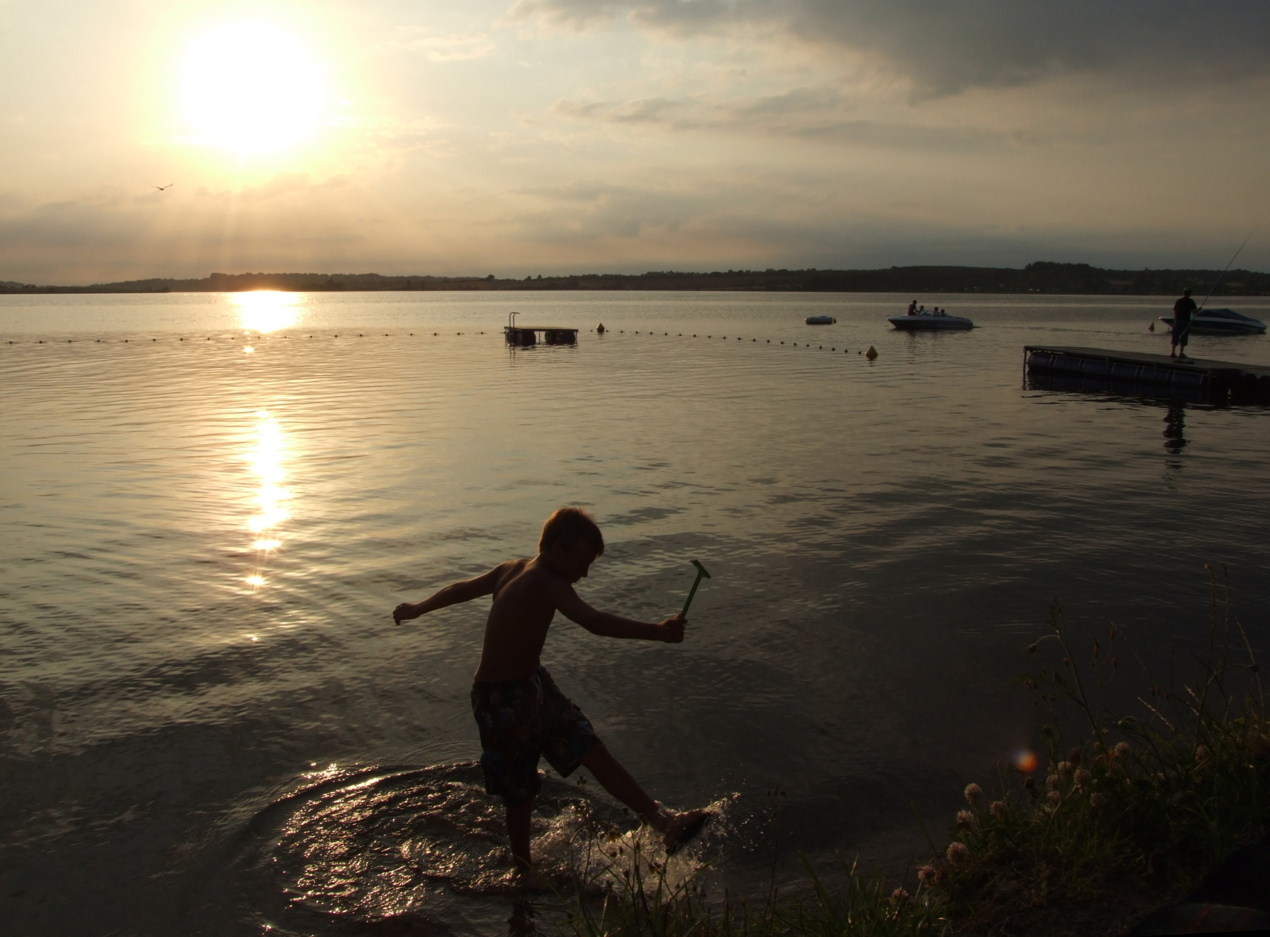 Salles-Curan, FRANCE